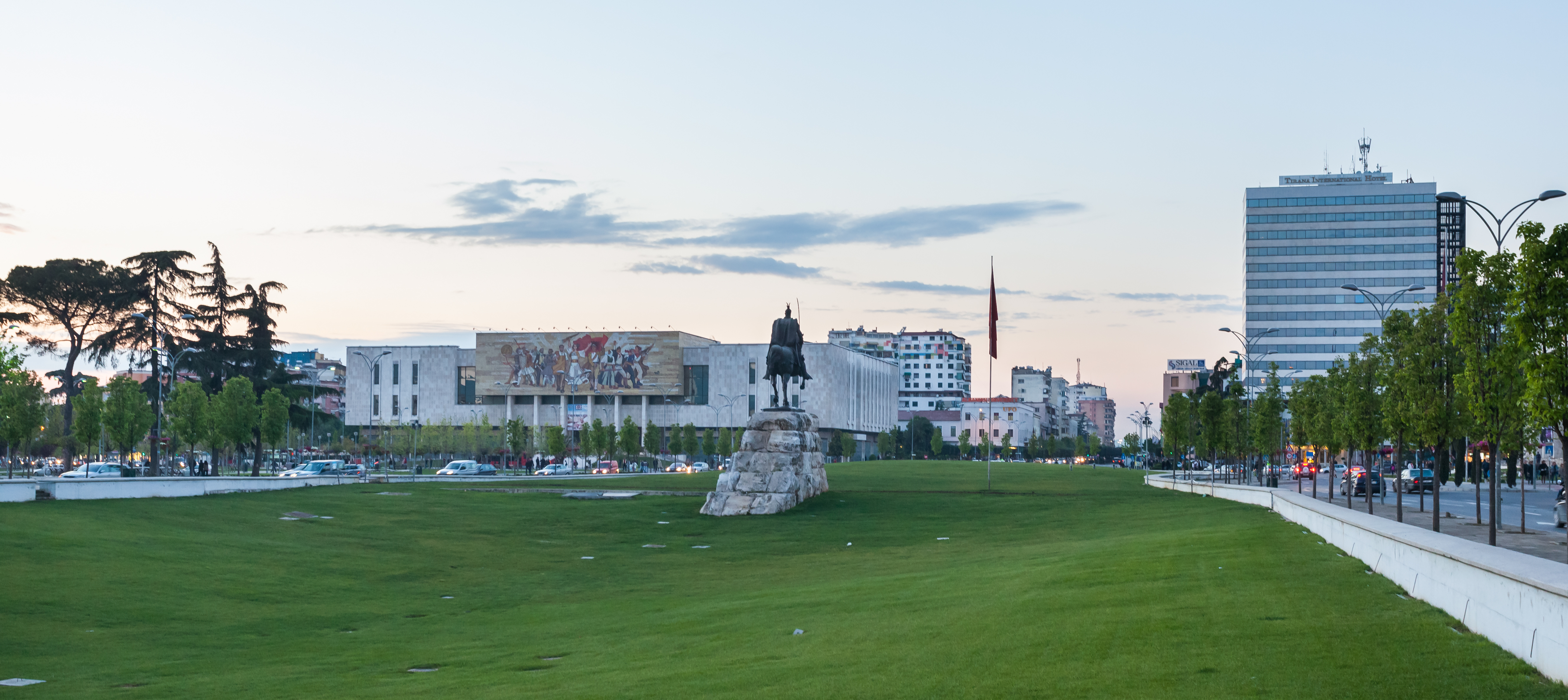 Skanderbeg Square, Tirana, Albania